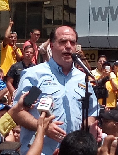 Julio Borges during a 2017 Venezuelan Assembly special session